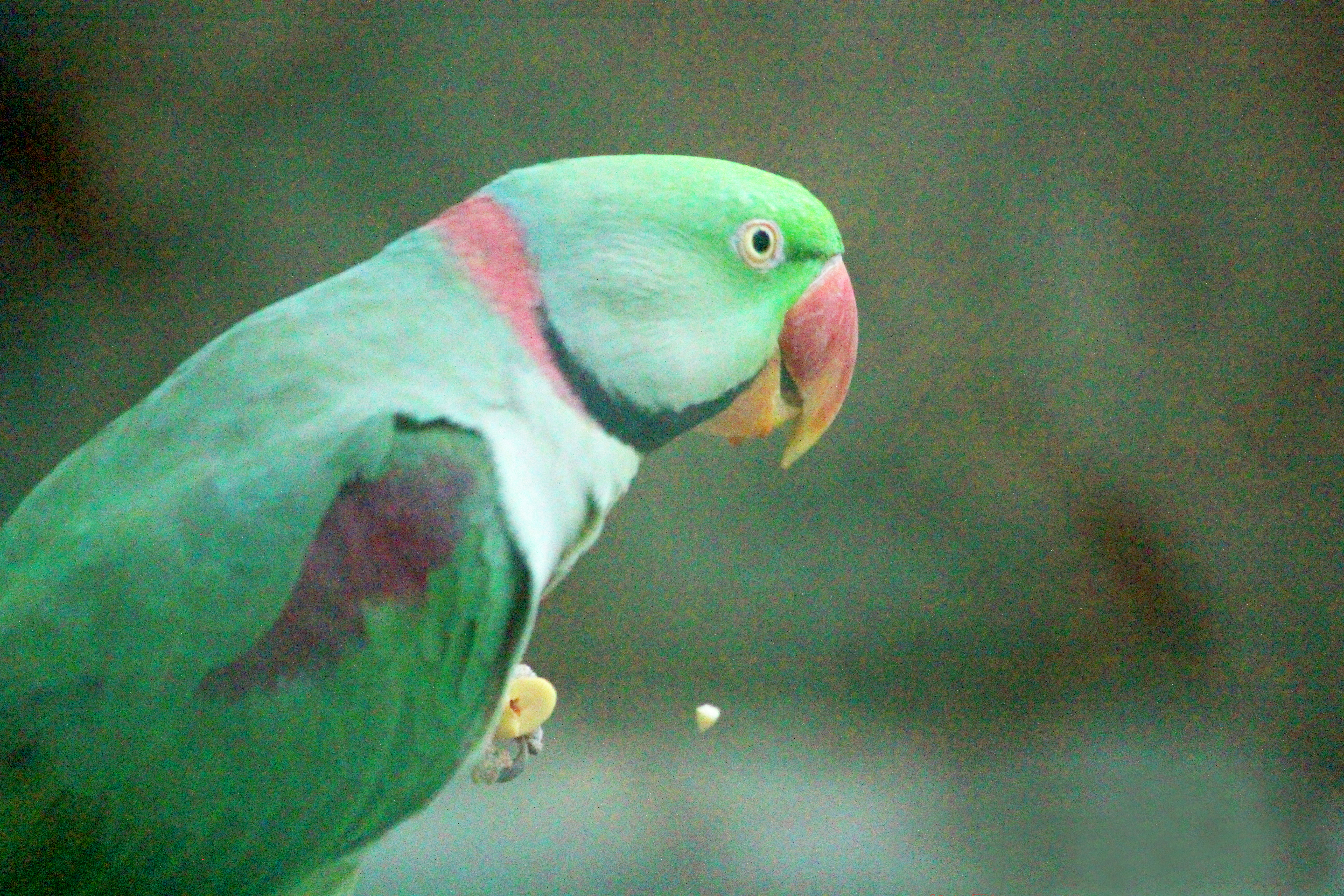 Alexandrine Parakeet Psittacula eupatria happy to get Food